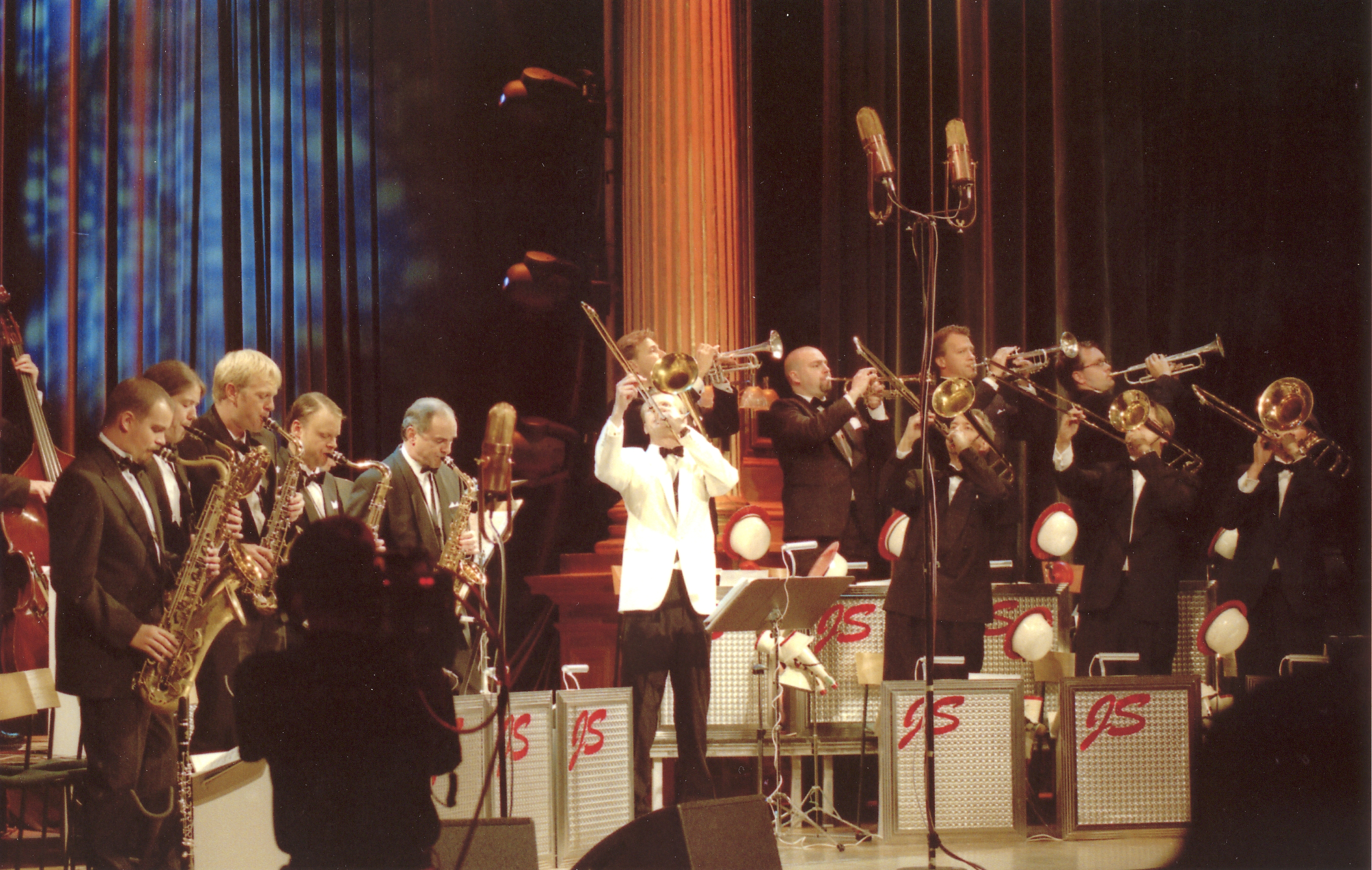 Dance event at Nalen, Stockholm 2001